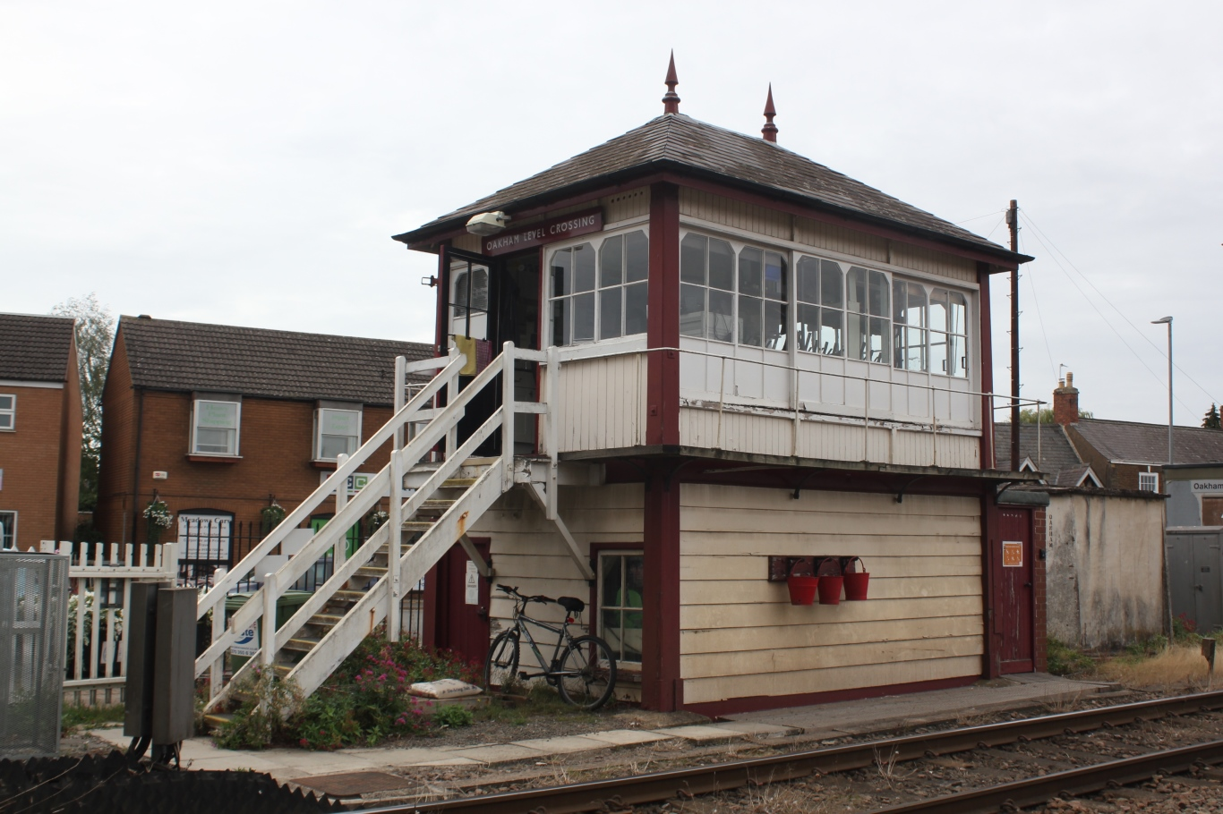 The signal box at Oakham in Leicestershire was the prototype for an Airfix plastic kit.